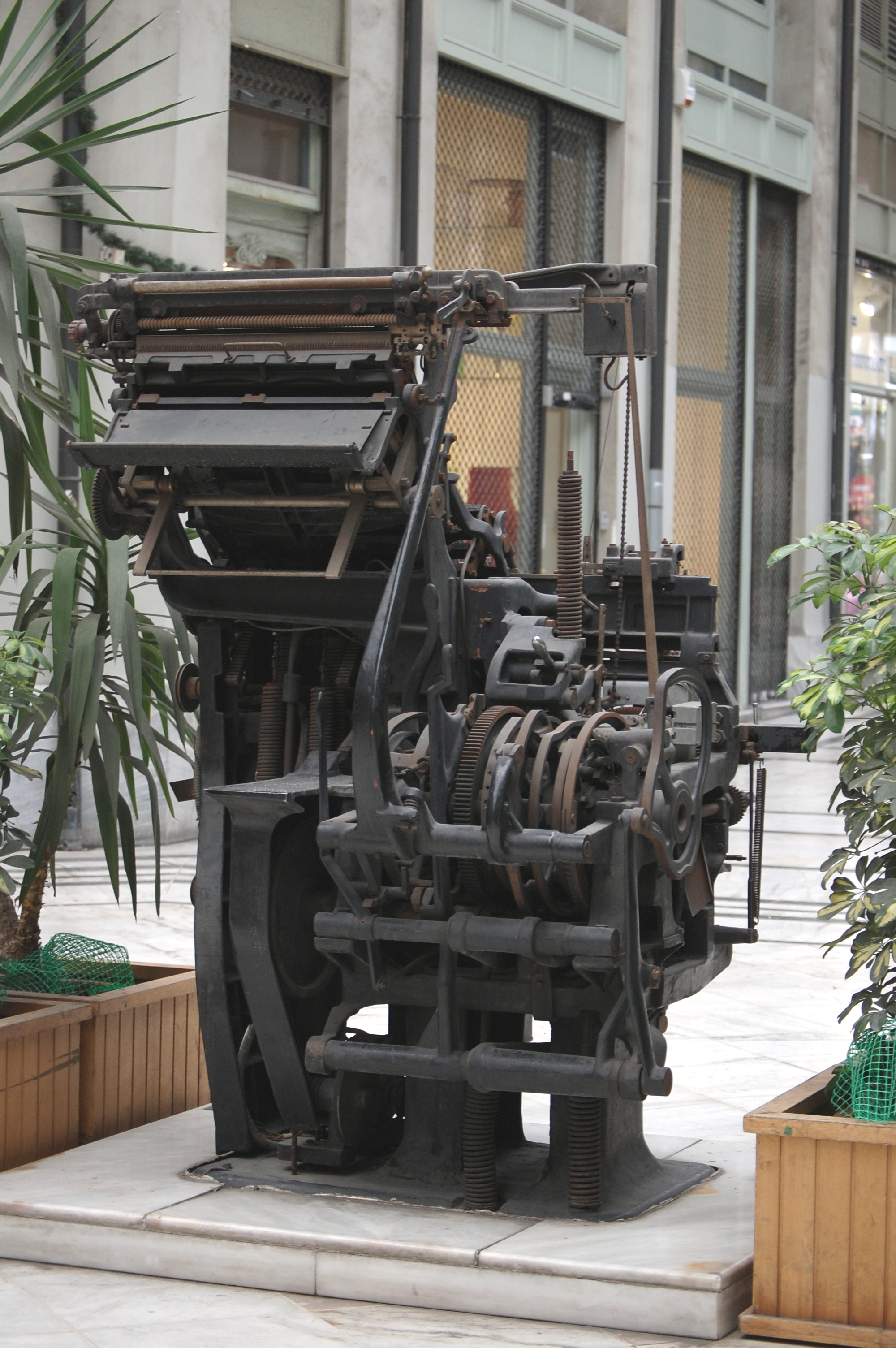 A linotype machine on display at Arsaki galley, Athens. Made in USSR 1974 by the ЛЕНИНГРАДСКИЙ works. Back view.